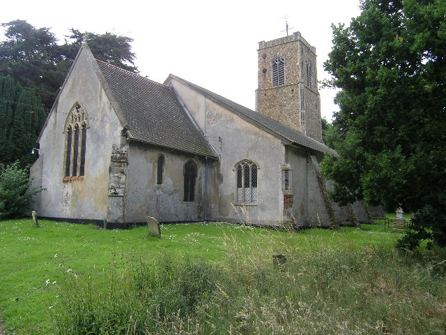 Church of St Peter in Wenhaston, Suffolk, England. A Grade I listed medieval church.